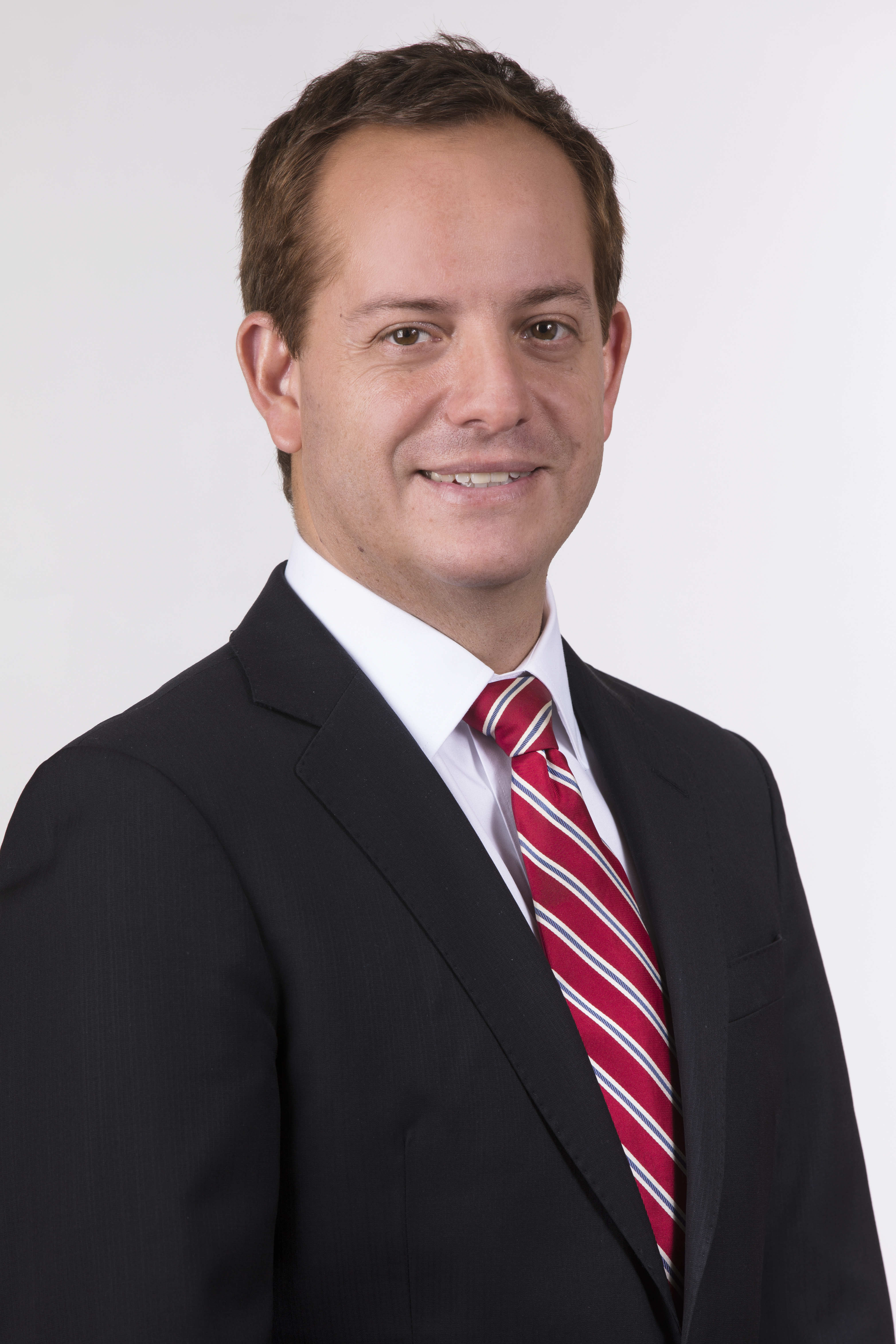 Fotografía oficial de diputado Nicolas Noman